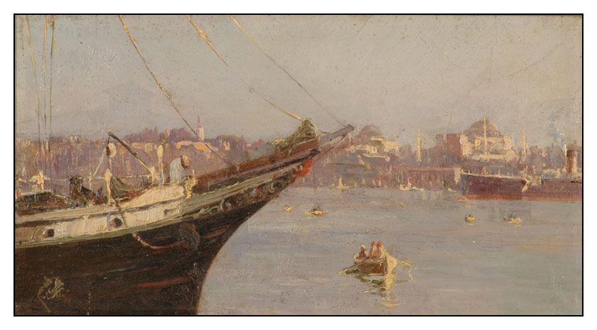 A Landscape